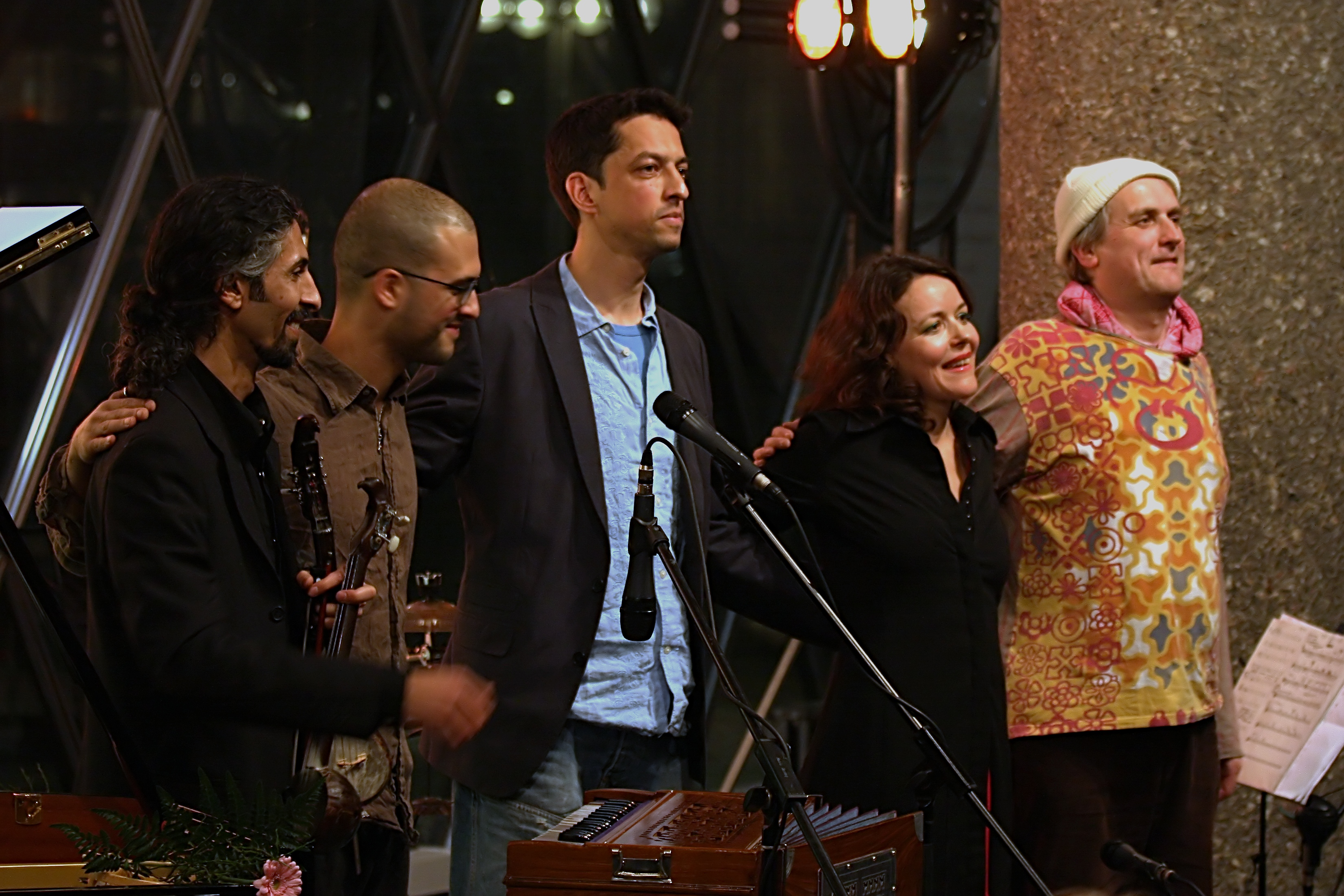 Mariana Sadovska with the group "Borderland". Performance at the "Domforum", Cologne, Germany